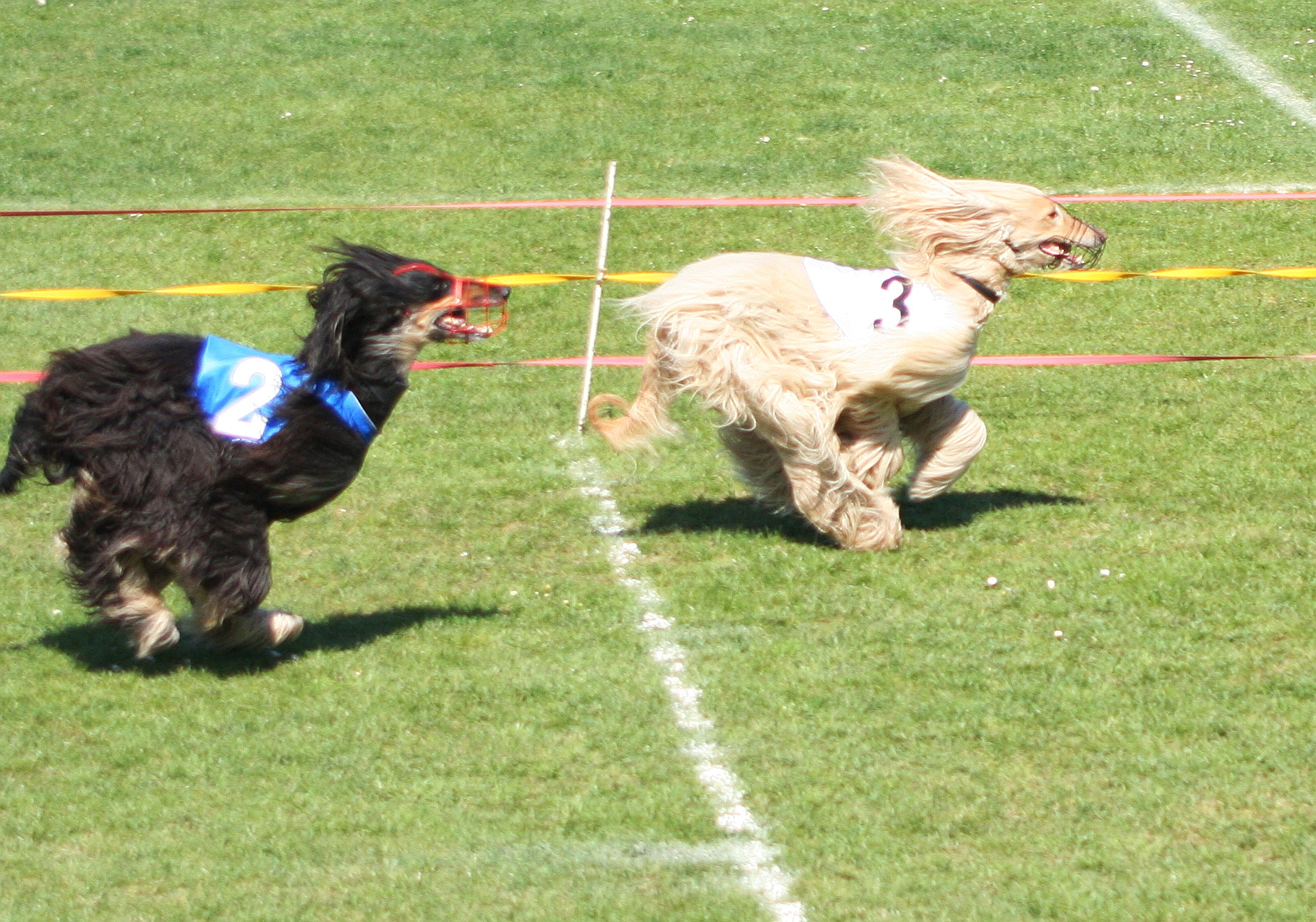 Afghan Hounds during the dog's racing in Bytom - Szombierki, Poland.